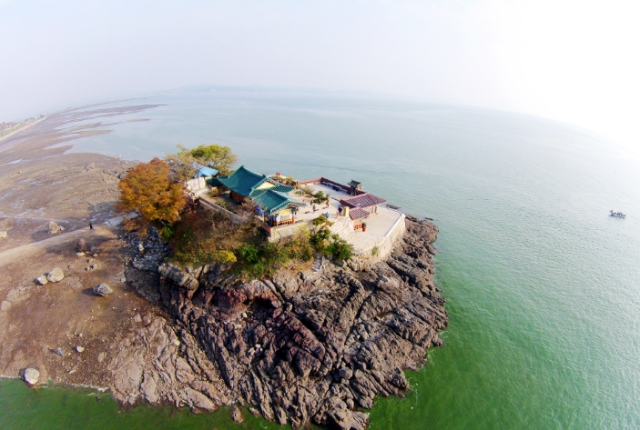 A Buddhist hermitage in Seosan. At low tide, it is connected to shore; on the other hand, at high tide, it becomes a island.